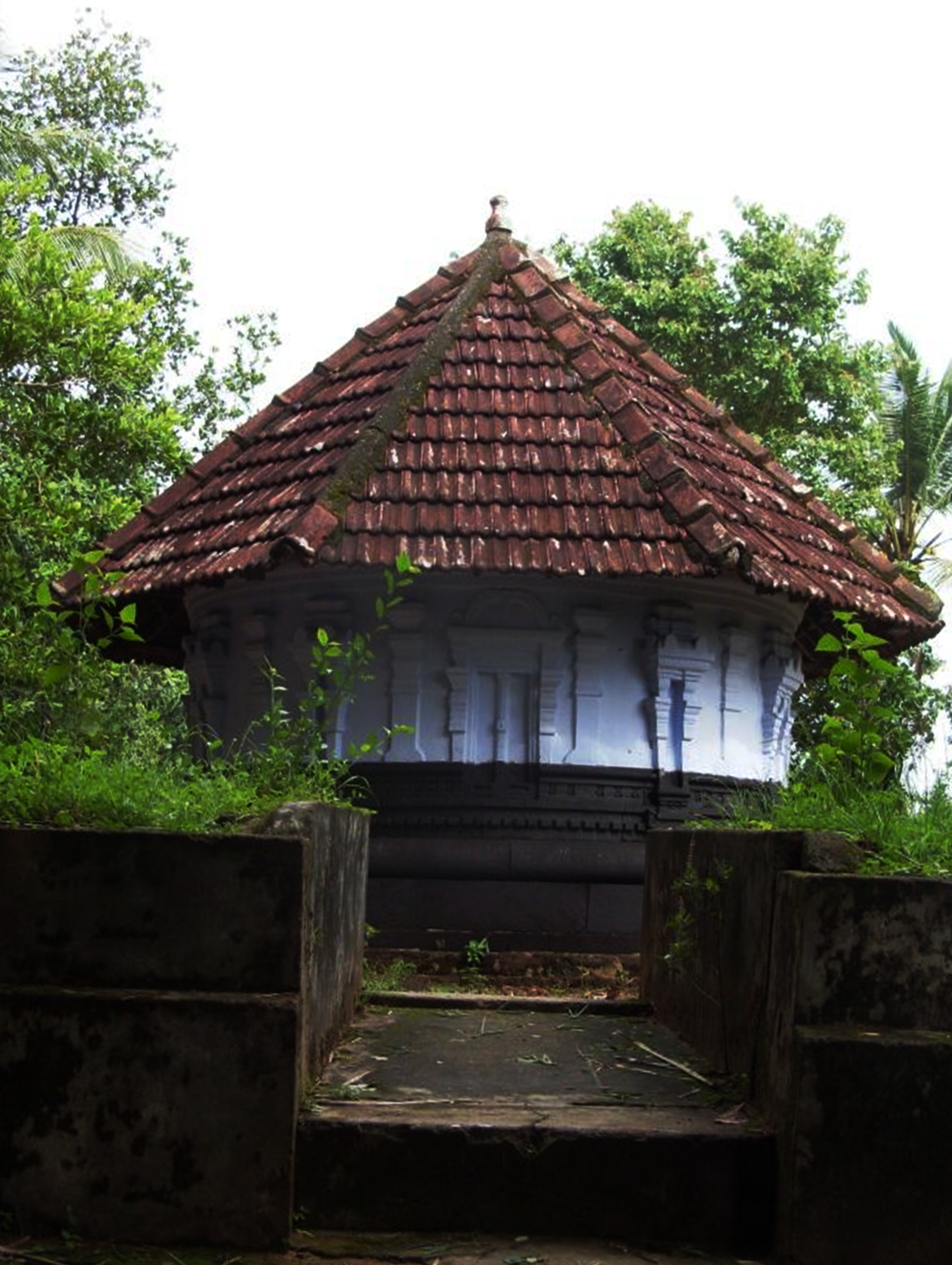 Thavanur Brahma-Siva Temple